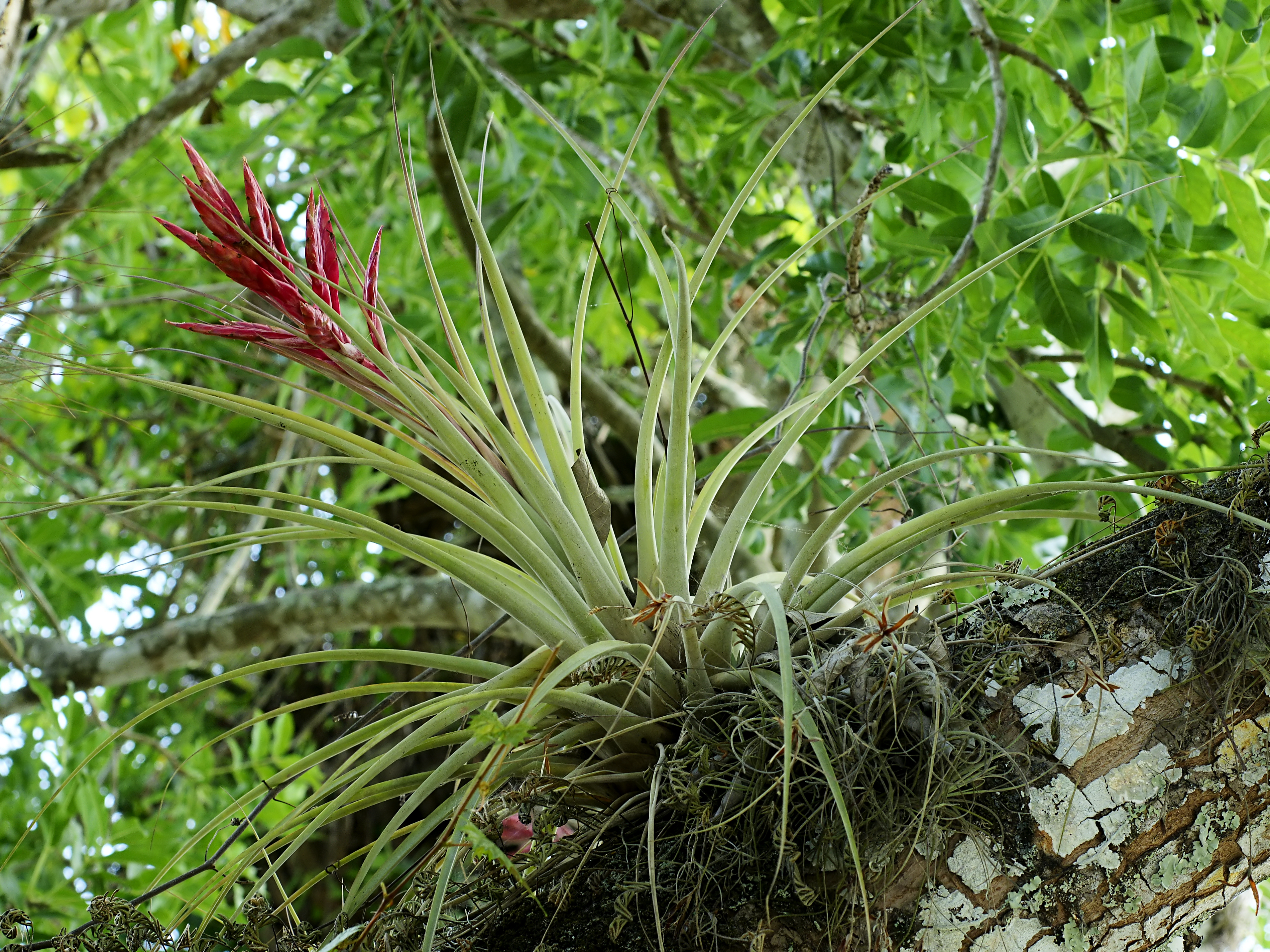 Cardinal Airplant at Jonathan Dickinson State Park in Martin County, Florida, U.S.A.